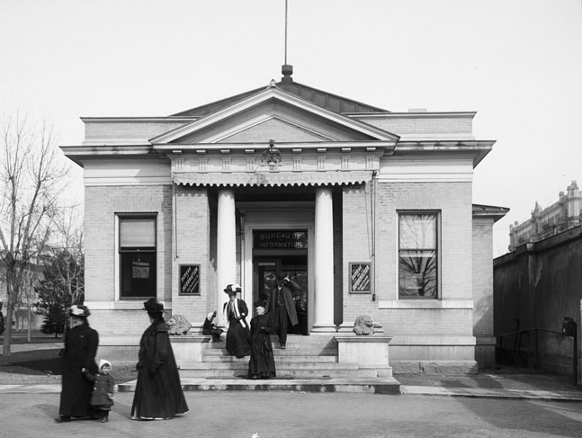 LDS Bureau of Information, Temple Square, SLC UT. Commercial publicity photograph taken for use by LDS Church, published circa 1909.